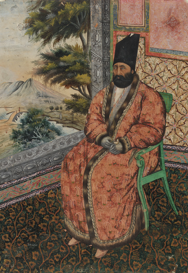 Mirza Muhammad Khan Qajar 1855-1856 Abbas Quli Karami , (Iranian, 19th century) Qajar period Opaque watercolor and ink on paper H: 43.2 W: 30.5 cm Iran Purchase S1999.21